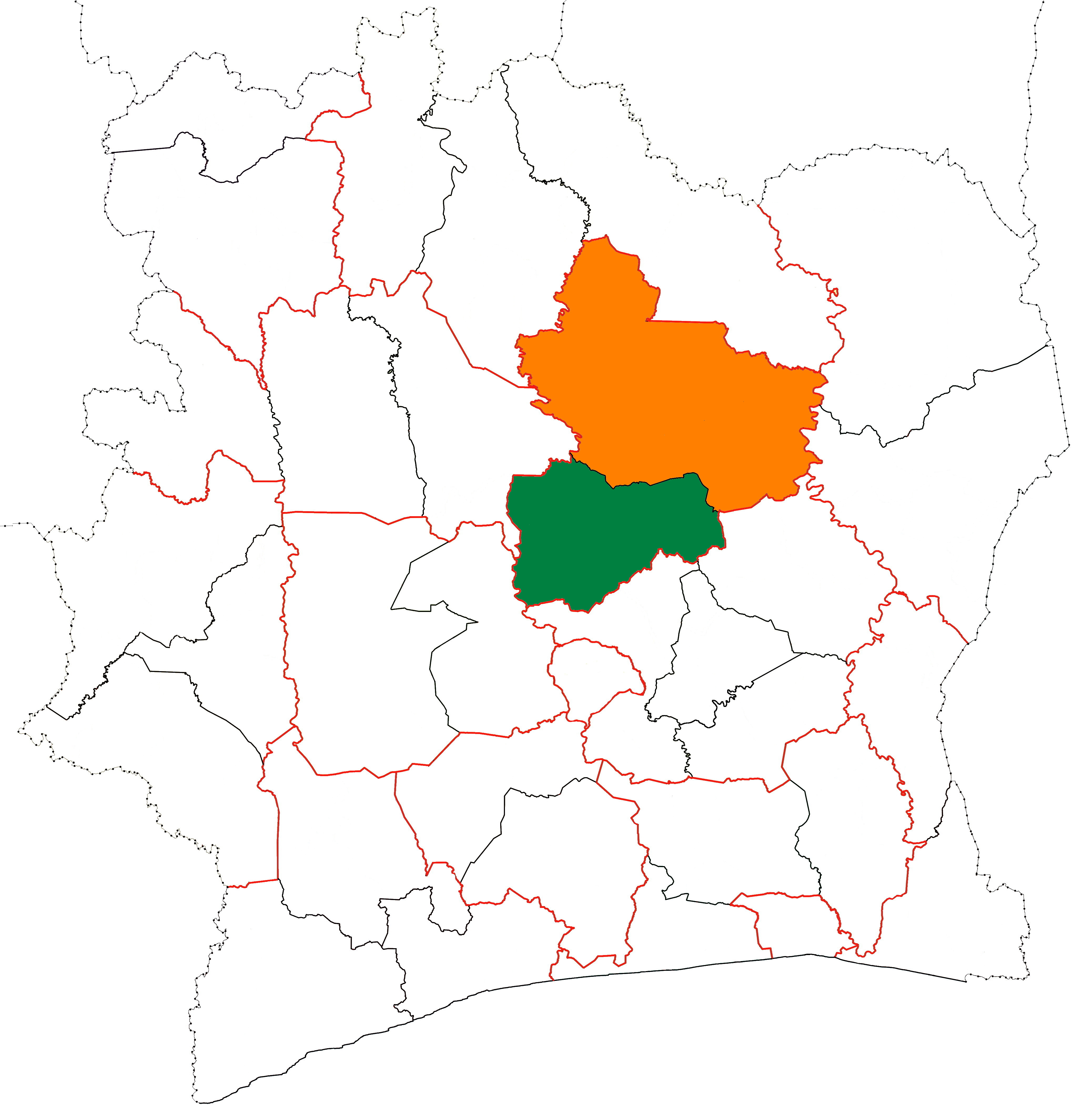 The location of Gbêkê region (green) in Côte d'Ivoire. The other shaded areas represent the other parts of Vallée du Bandama District.